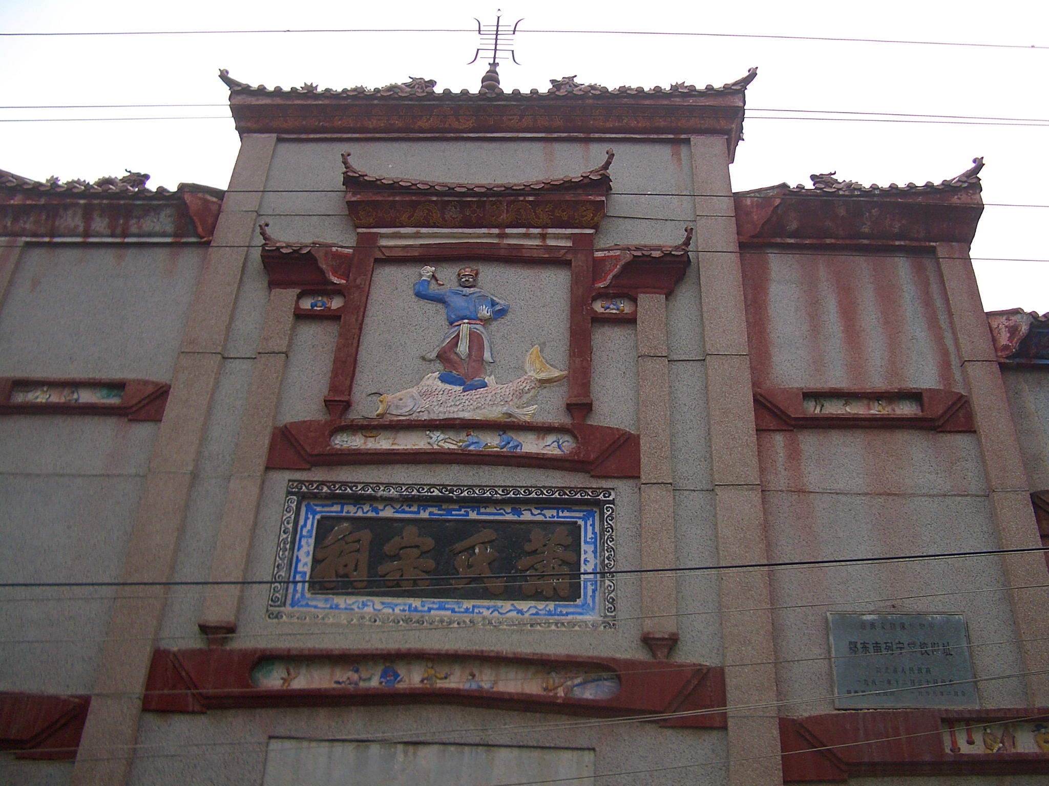 Former "Lenin School of South-Eastern Hubei", just south of Xinwupu village in Yangxin County. The school apparently was housed in a former (and may be present-day?) ancestral hall of the Xiao (?) family, 蕭(?)氏宗祠. The rooftop design is apparently based on the character 寿